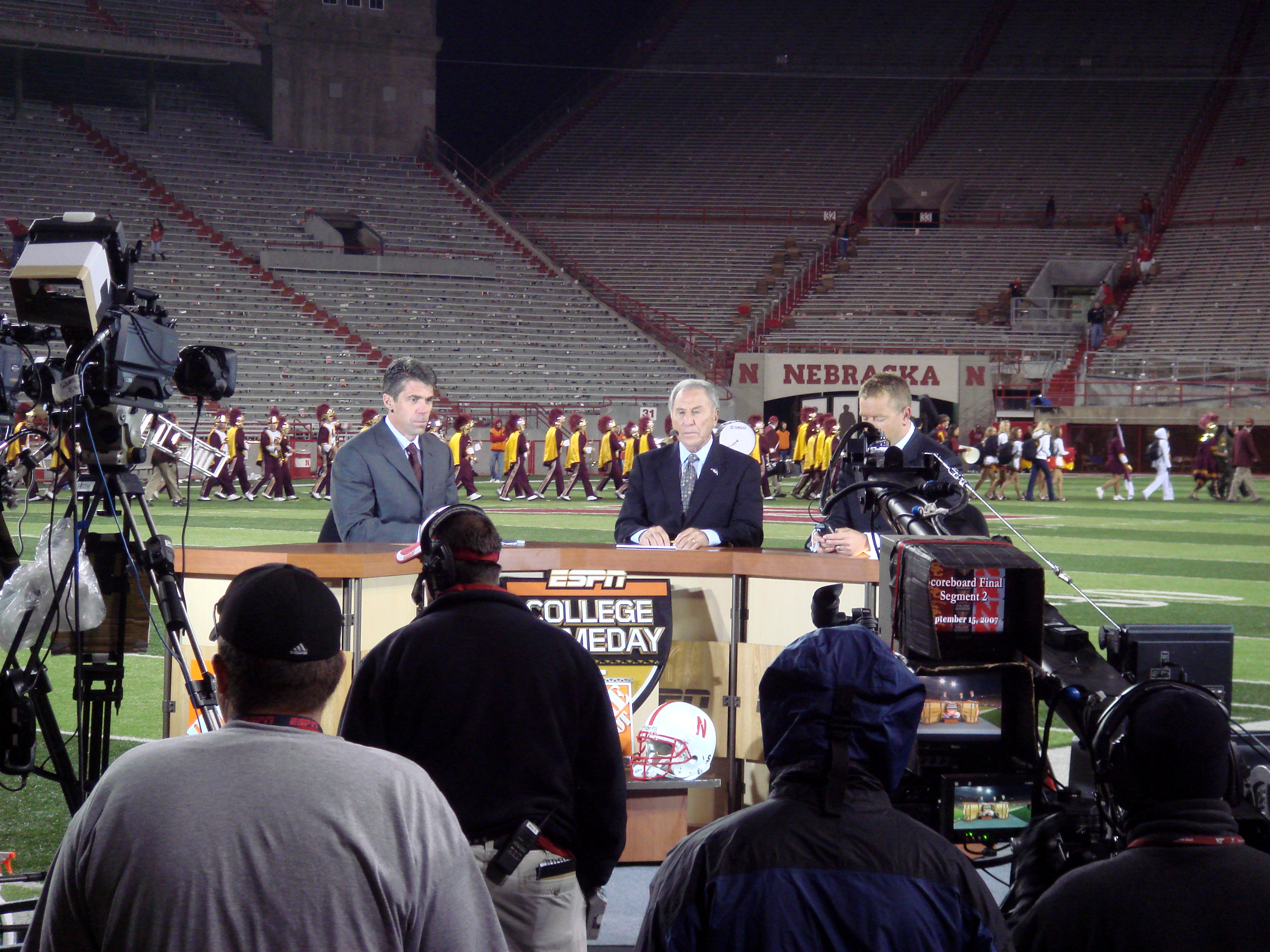 The crew of ESPN College GameDay, from left to right Chris Fowler, Lee Corso and Kirk Herbstreit records their wrap-up of the day's games for SportsCenter, this time from Memorial Stadium in Lincoln, Nebraska: home of the Nebraska Cornhuskers football team. The Spirit of Troy is crossing in the background. On September 15, 2007 the then-#14 ranked Cornhuskers hosted the #1 ranked USC Trojans in the game of the week. Before 84,949, the Trojans felled the Huskers 49-31.